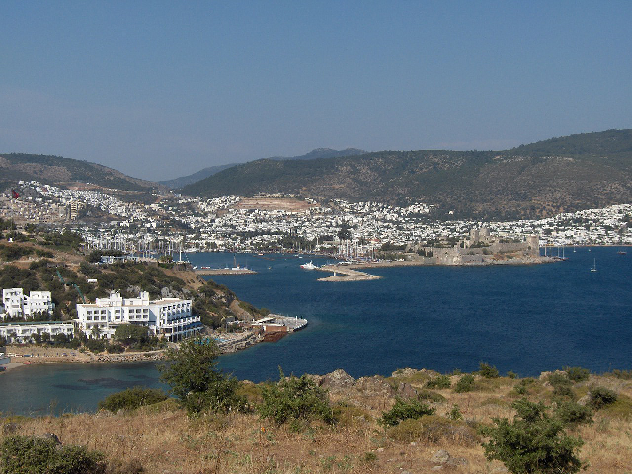 View on the harbour and St. Peter's castle; Bodrum, Turkey